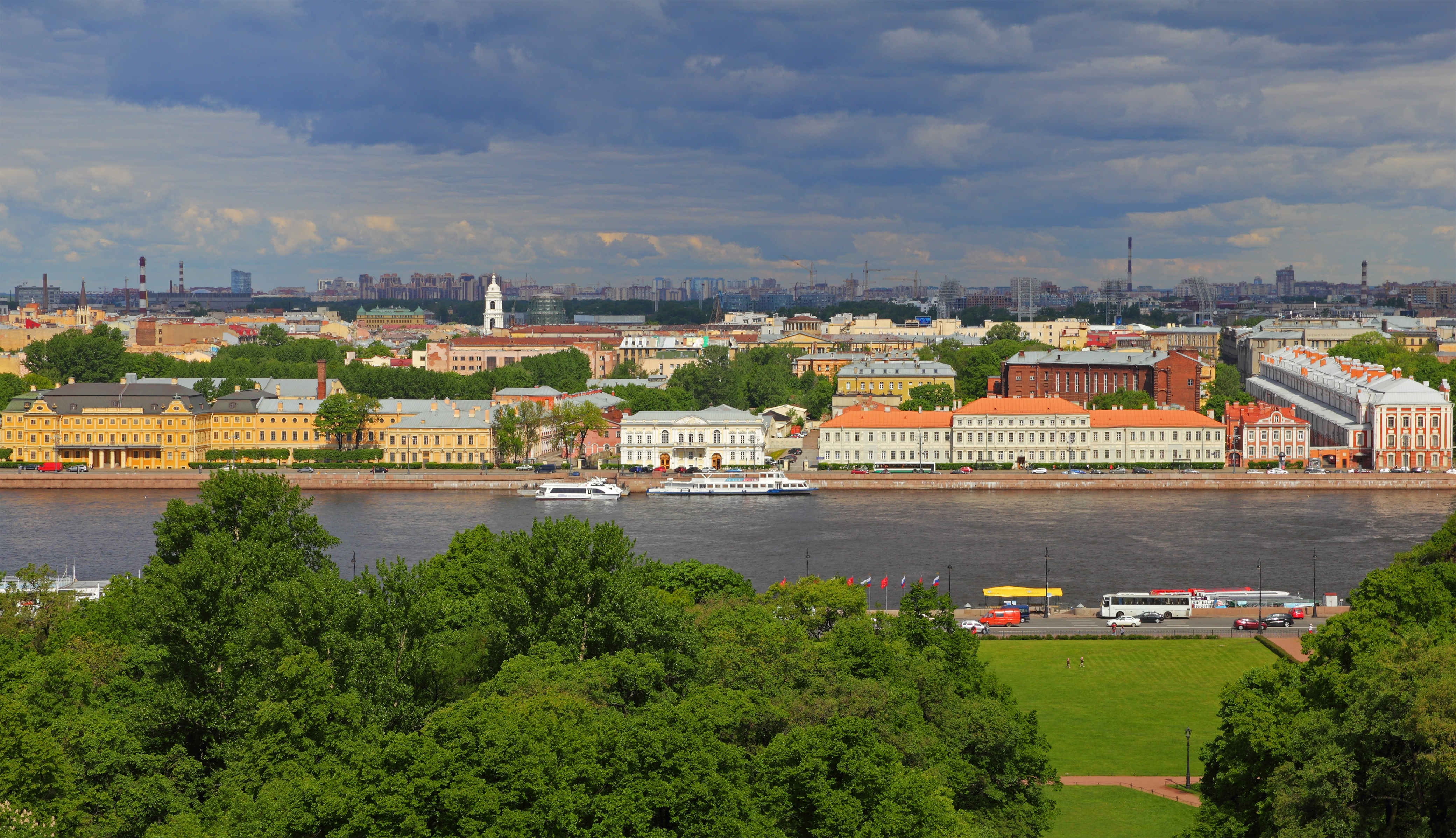 Saint Petersburg, Russia. The ensemble of the University Embankment, as seen from the Cathedral of St. Isaac.